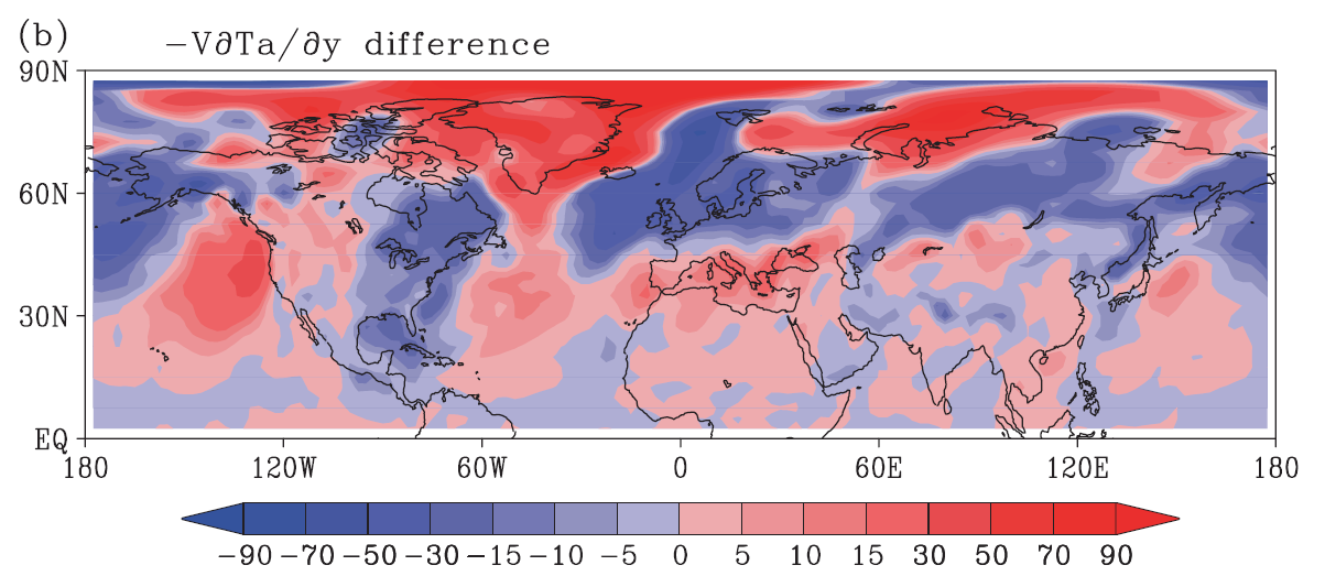 Meridional temperature advection difference (−V∂Ta/∂y; 10−4 ◦C/s) between the period of 28, December 2009 – 13, January 2010 and the same time period of previous 60 years. (in blue, negatives values indicate a poleward temperature advection and in red, positive values indicate an equatorward temperature advection)